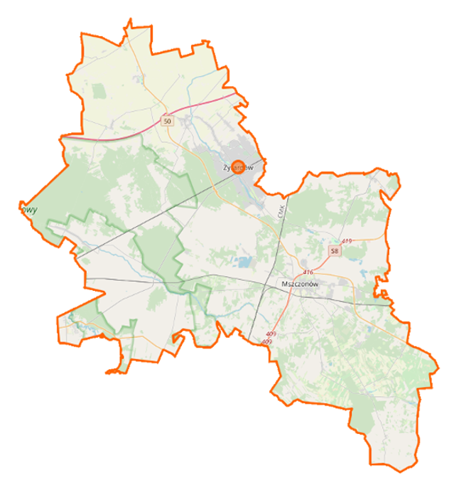 Map of Powiat żyrardowski, Poland This map of Powiat żyrardowski was created from OpenStreetMap project data, collected by the community. This map may be incomplete, and may contain errors. Don't rely solely on it for navigation.